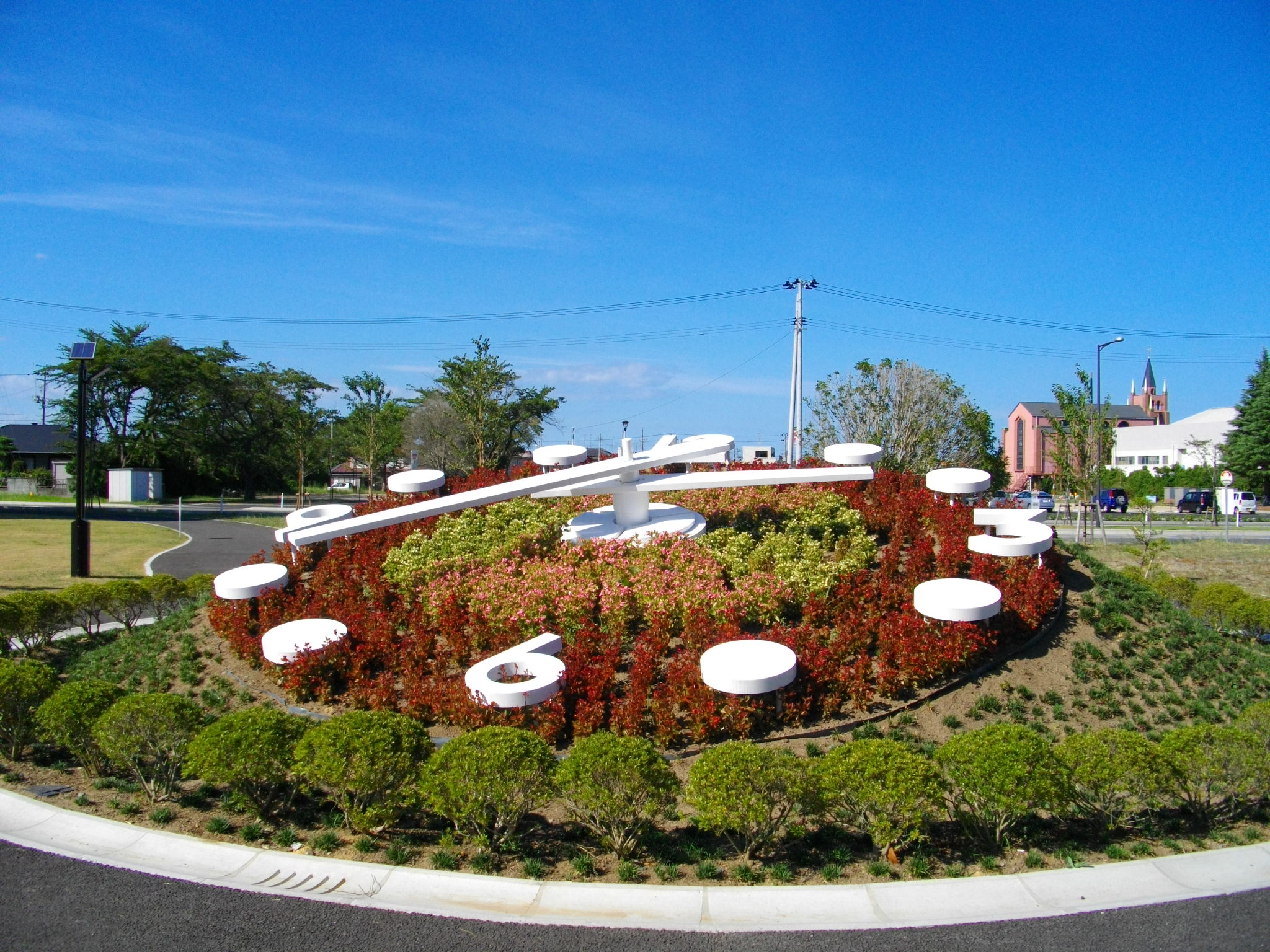 "Musentō ato Hanadokei " The Flower Clock where the Haramachi Radio Tower once stood. (Location:Fukushima-pref. JAPAN)